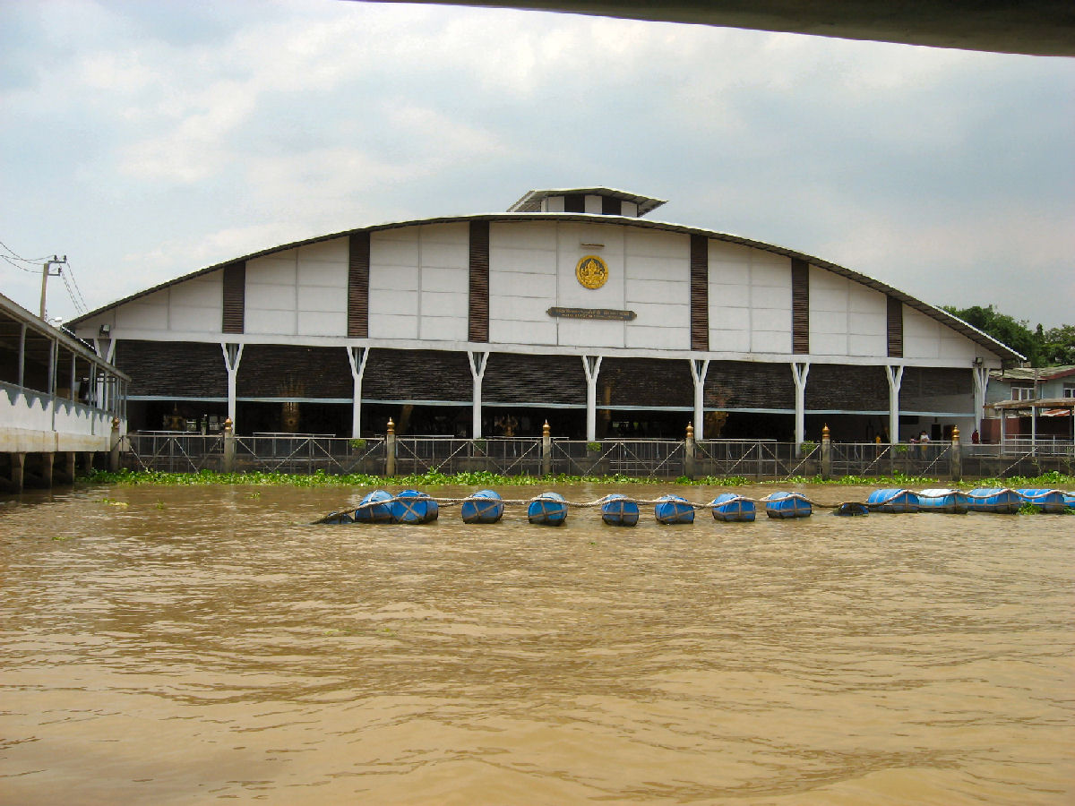 National Museum of Royal Barges in Bangkok, Thailand - taken from the Khlong Bangkok Noi (Little Bangkok Canal)